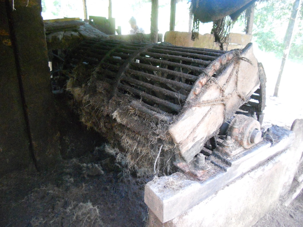 Coir machine